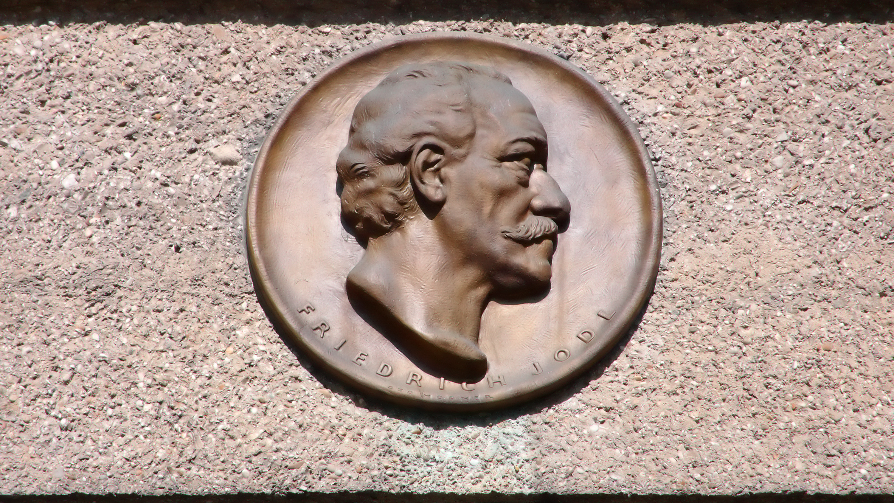 Residential building Professor-Jodl-Hof in Vienna Döbling